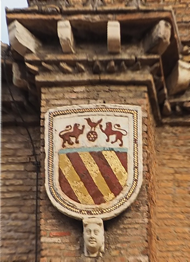 Santa Maria in Aracoeli (Rome) outside, Coat of arms Savelli